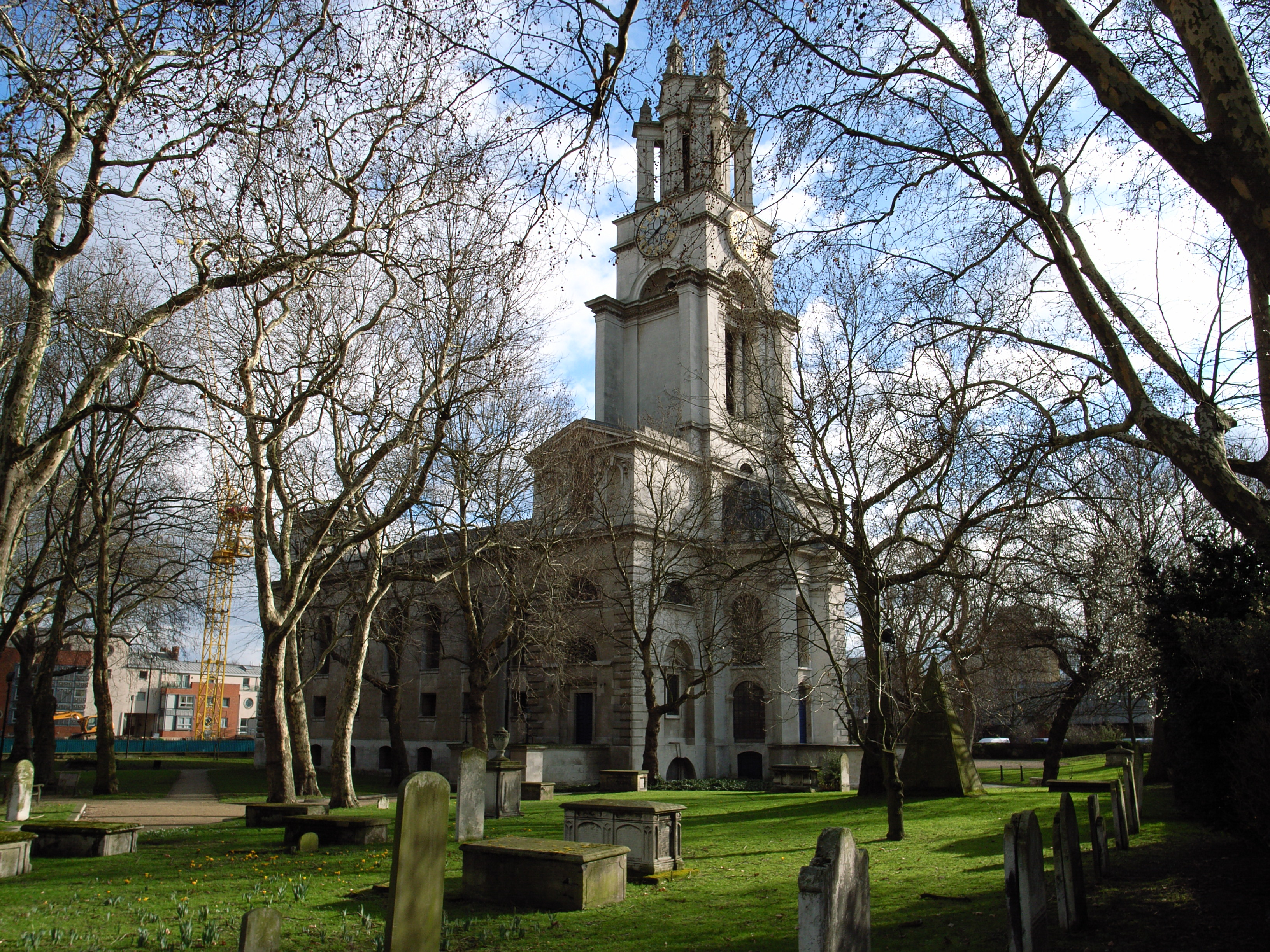 St Anne Limehouse (1714-30), by Nicholas Hawksmoor